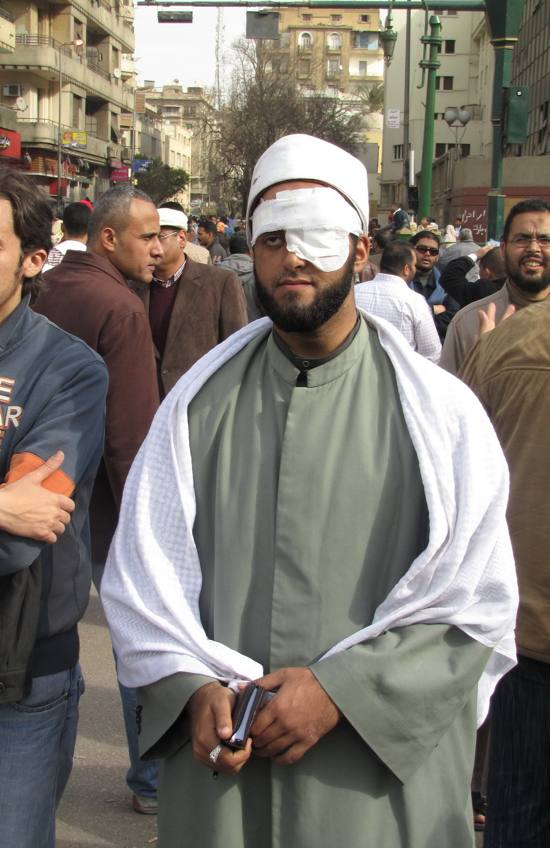 An imam of the Al-Azhar University during the 2011 Egyptian Revolution. He was injured during the early violence